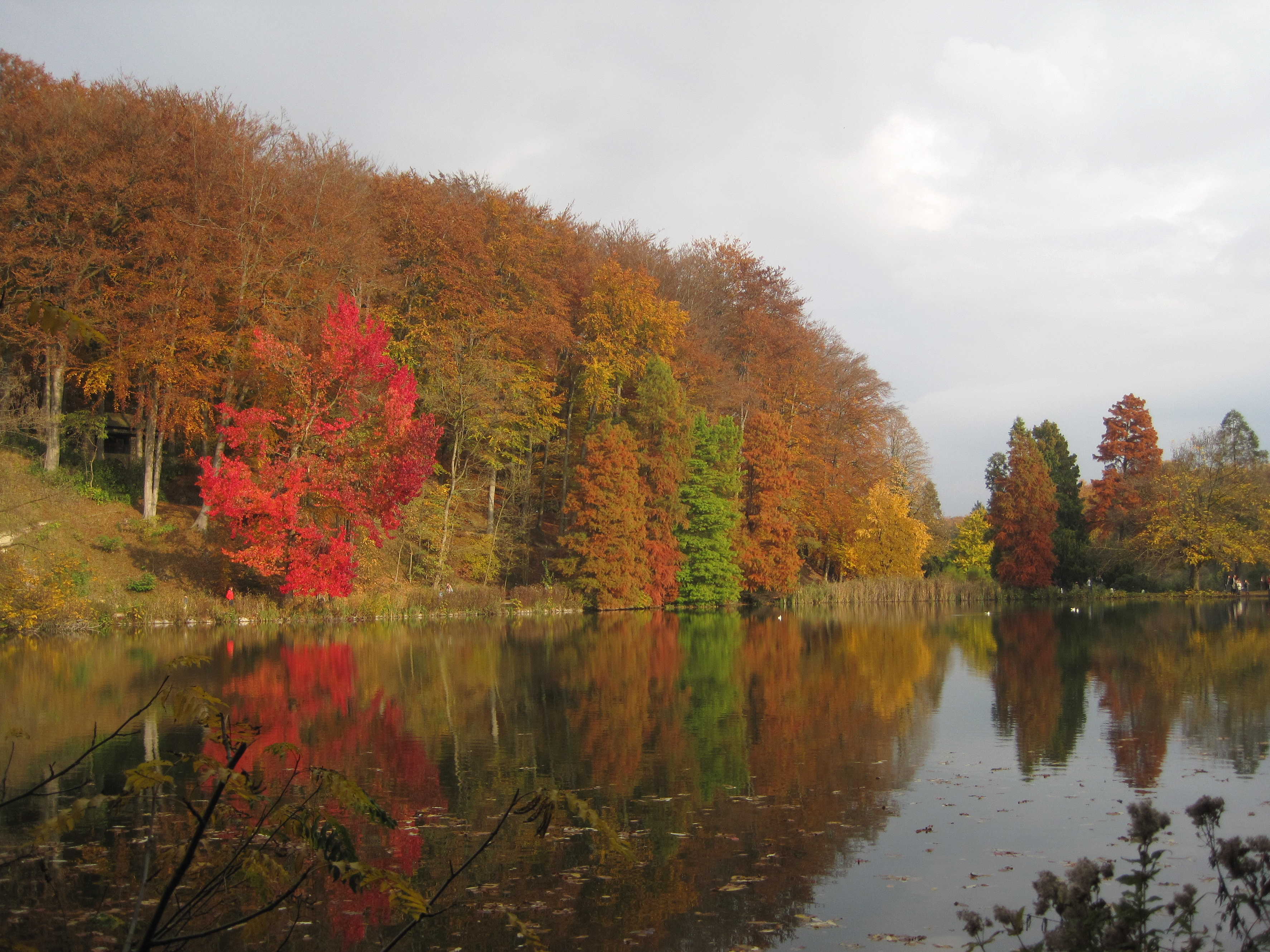 The pond of the "Longue Queue" in the autumn - Domaine Solvay in La Hulpe, Belgium.